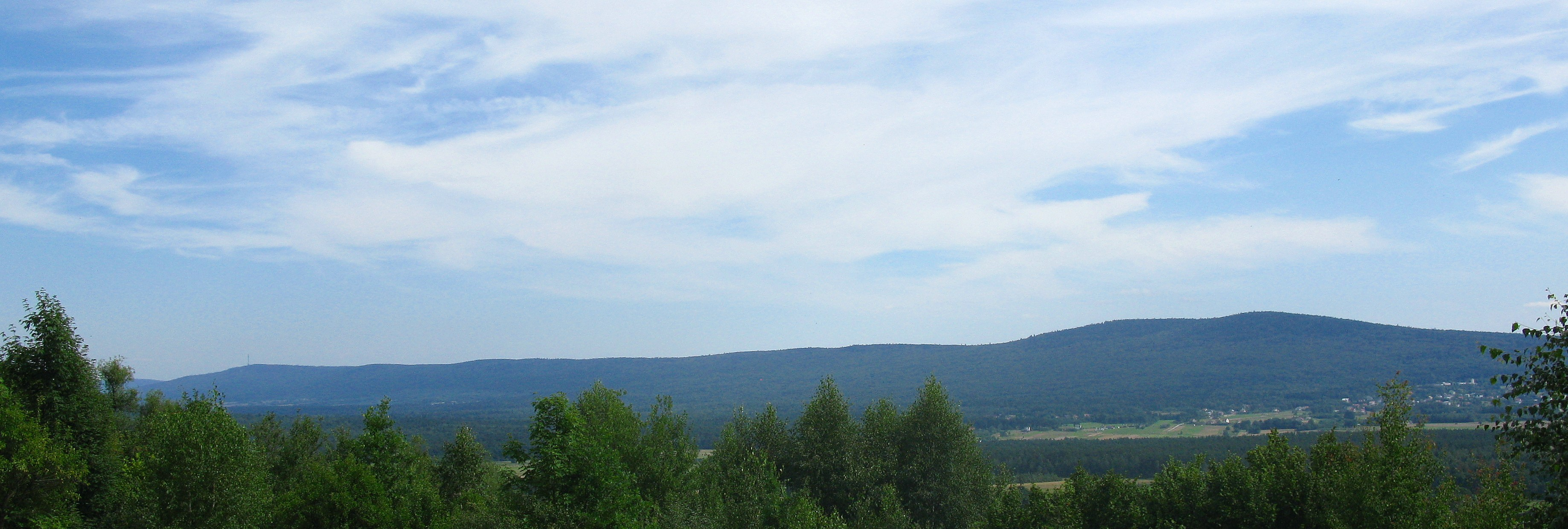 Łysogóry